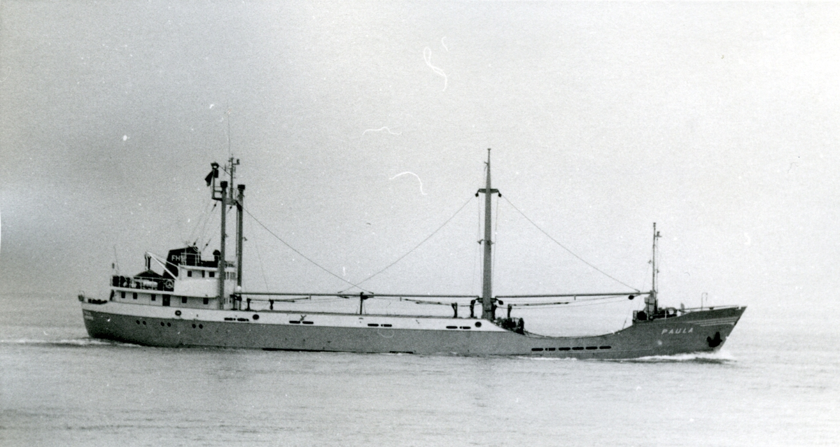 Coastal motor vessel PAULA (IMO 6405329) built at Schiffswerft J. J. Sietas, Hamburg-Neuenfelde, for Friedrich Breuer, Bützfleth, (yard № 523, Sietas type 20, launched: 21-12-1963, delivered: 18-01-1964, home port: Hamburg), 1985 ANTA, 1989 ANNE, 1991 HEATHER, 1992 ANNE, 1993 BLUE MARLIN, 1994 ANNEKE, 1998 MASTER SEA, 2012 deleted from the register; collection J. Robert Boman (1926–2002) owned by Sjöhistoriska museet.